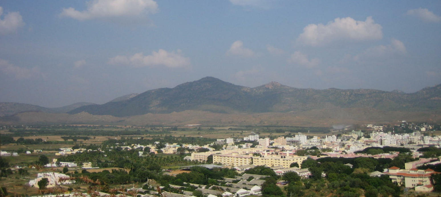 photo of Prashanti Nilayam and surrounding village of Puttaparthi